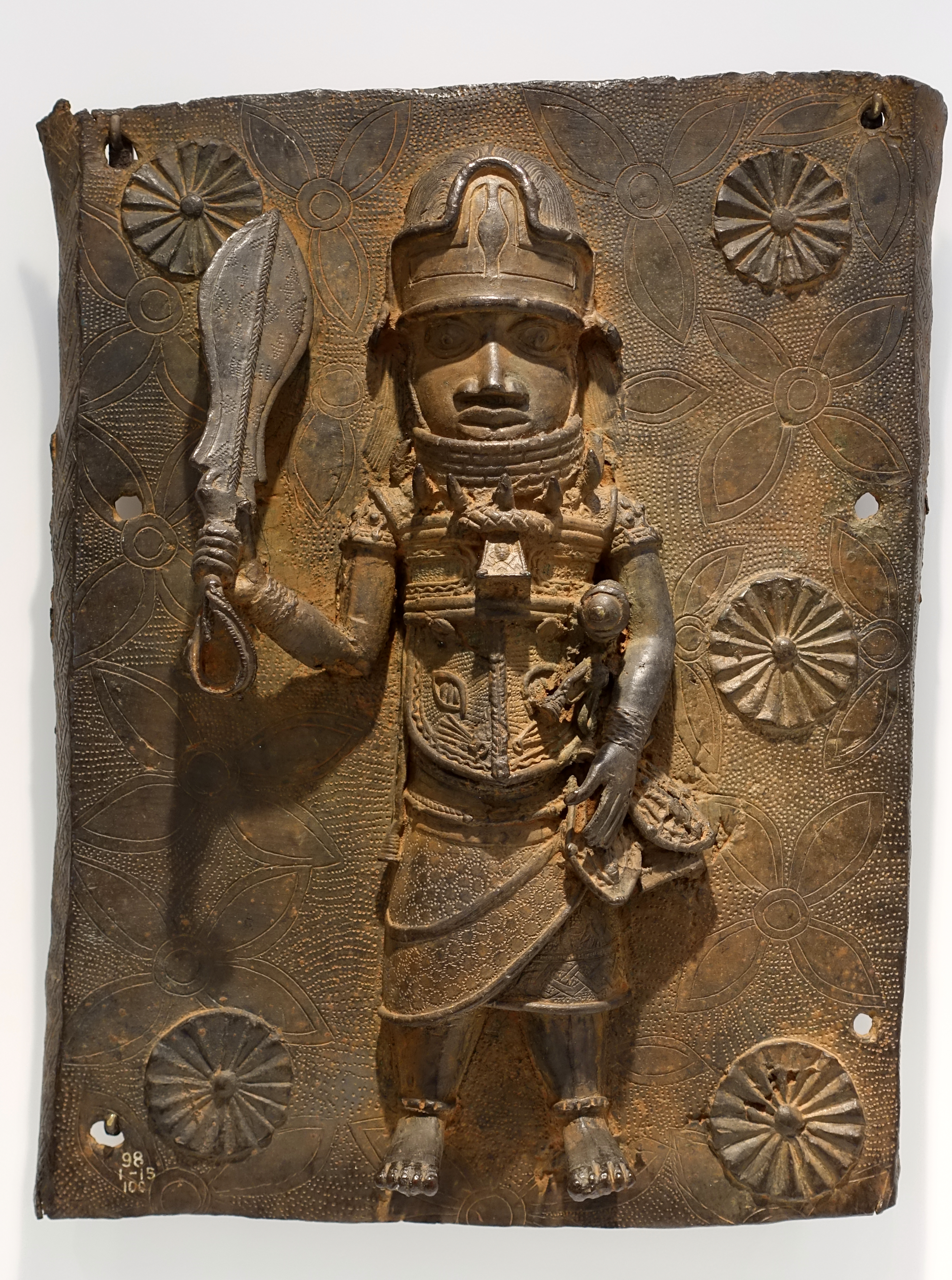 African art in the Dallas Museum of Art, Dallas, Texas, USA.